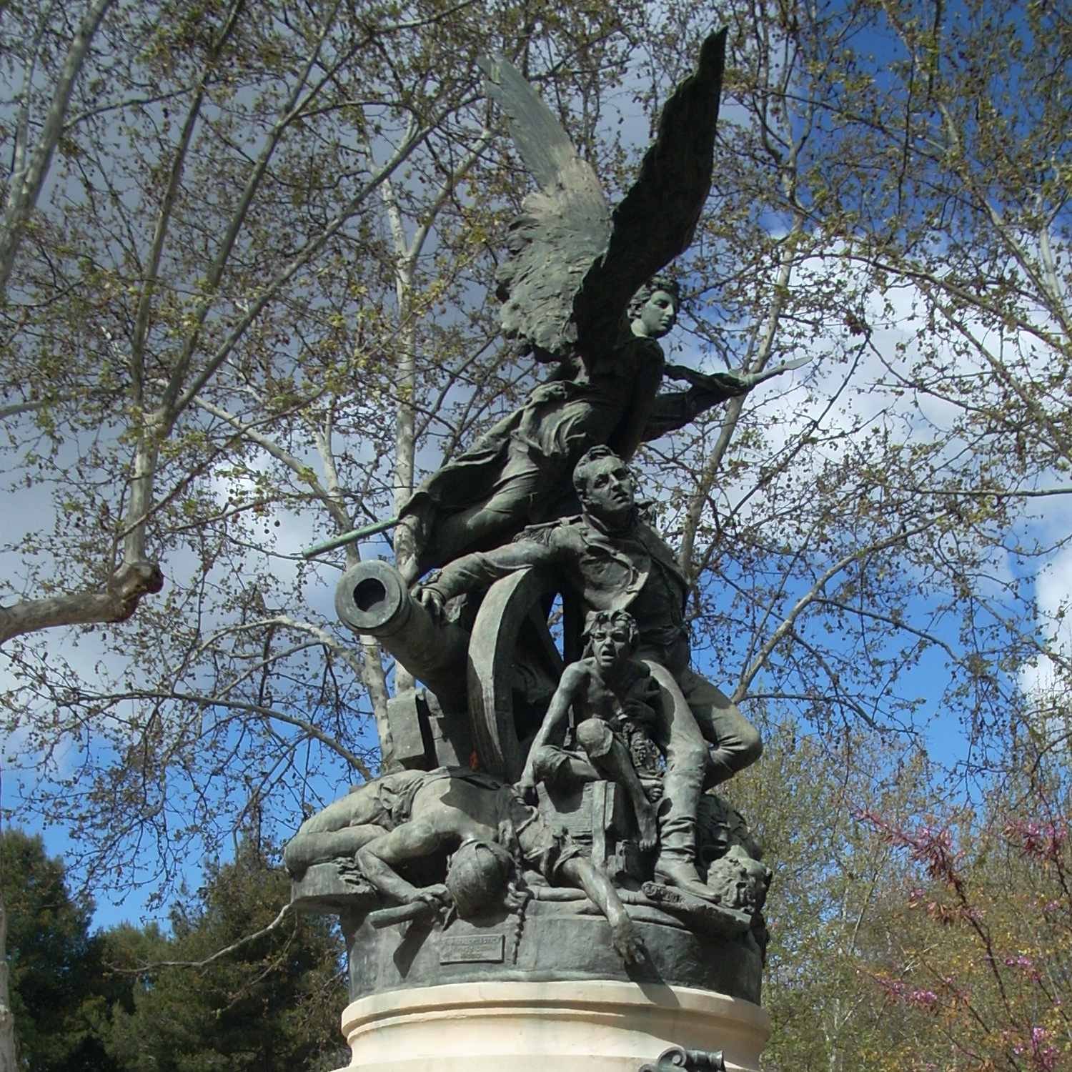 Monument to the heroes of 2nd May 1808, Madrid.